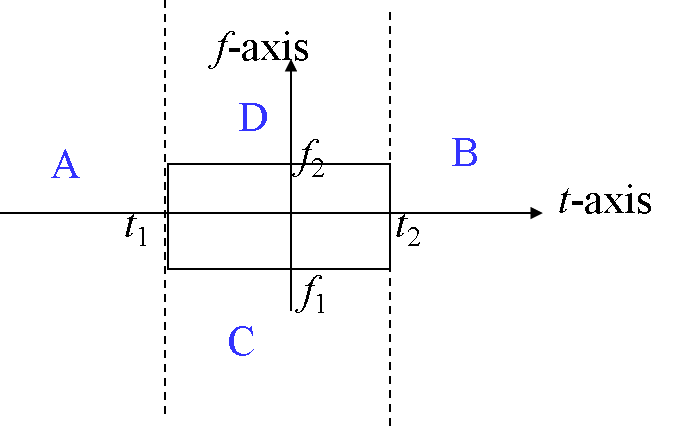 summation of area of Wigner distribution function on time-frequency analysis